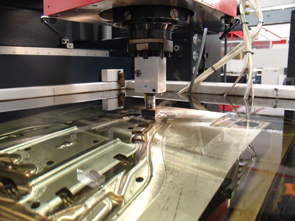 I took this picture and would like to donate it to Wikipedia!